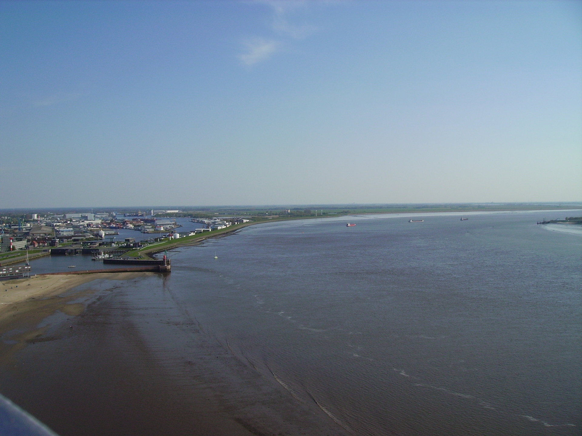 View of the River Weser in Bremerhaven, southern direction